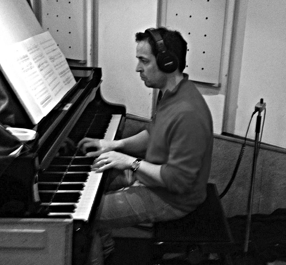 Pianist Jason Rebello in the Studio